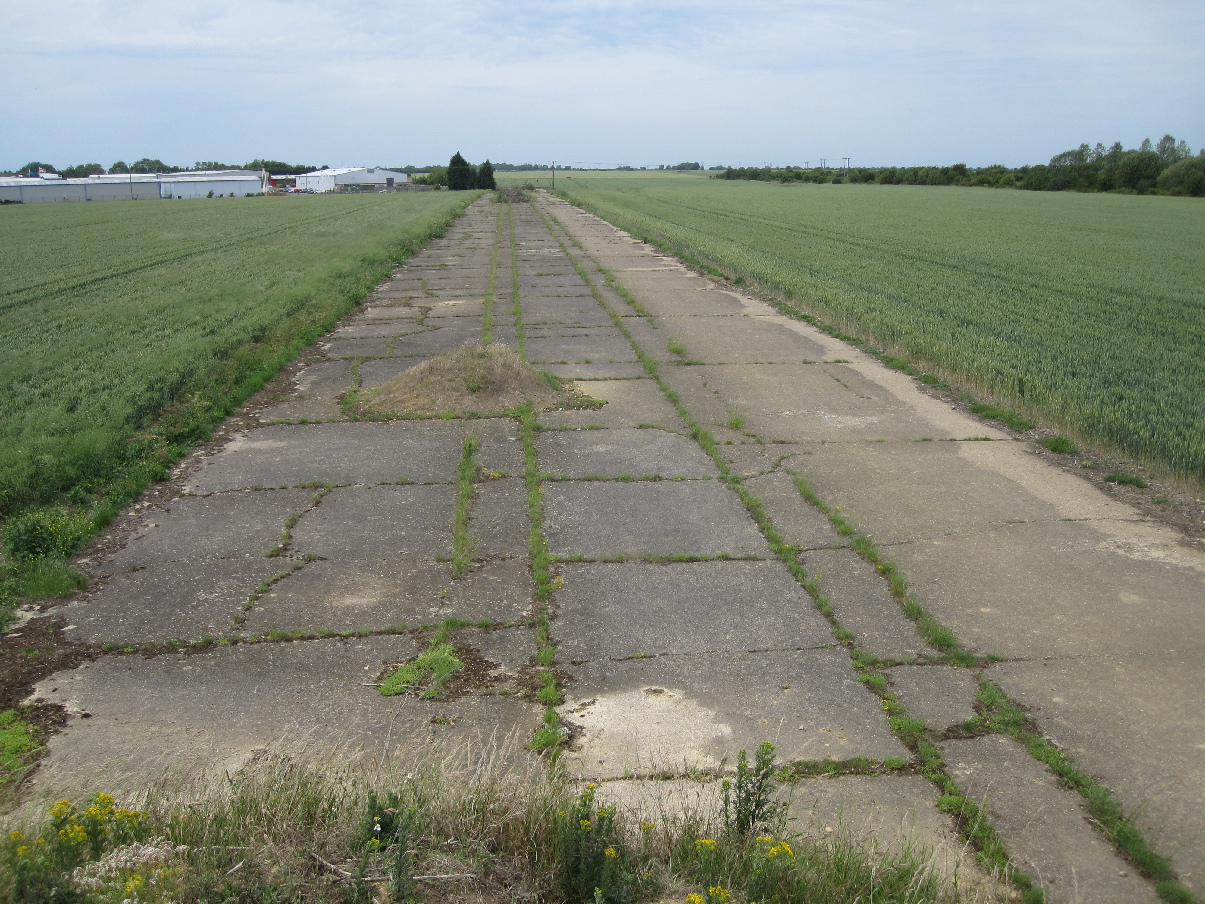 Taxiway at the former Kimbolton Airfield in June 2011.